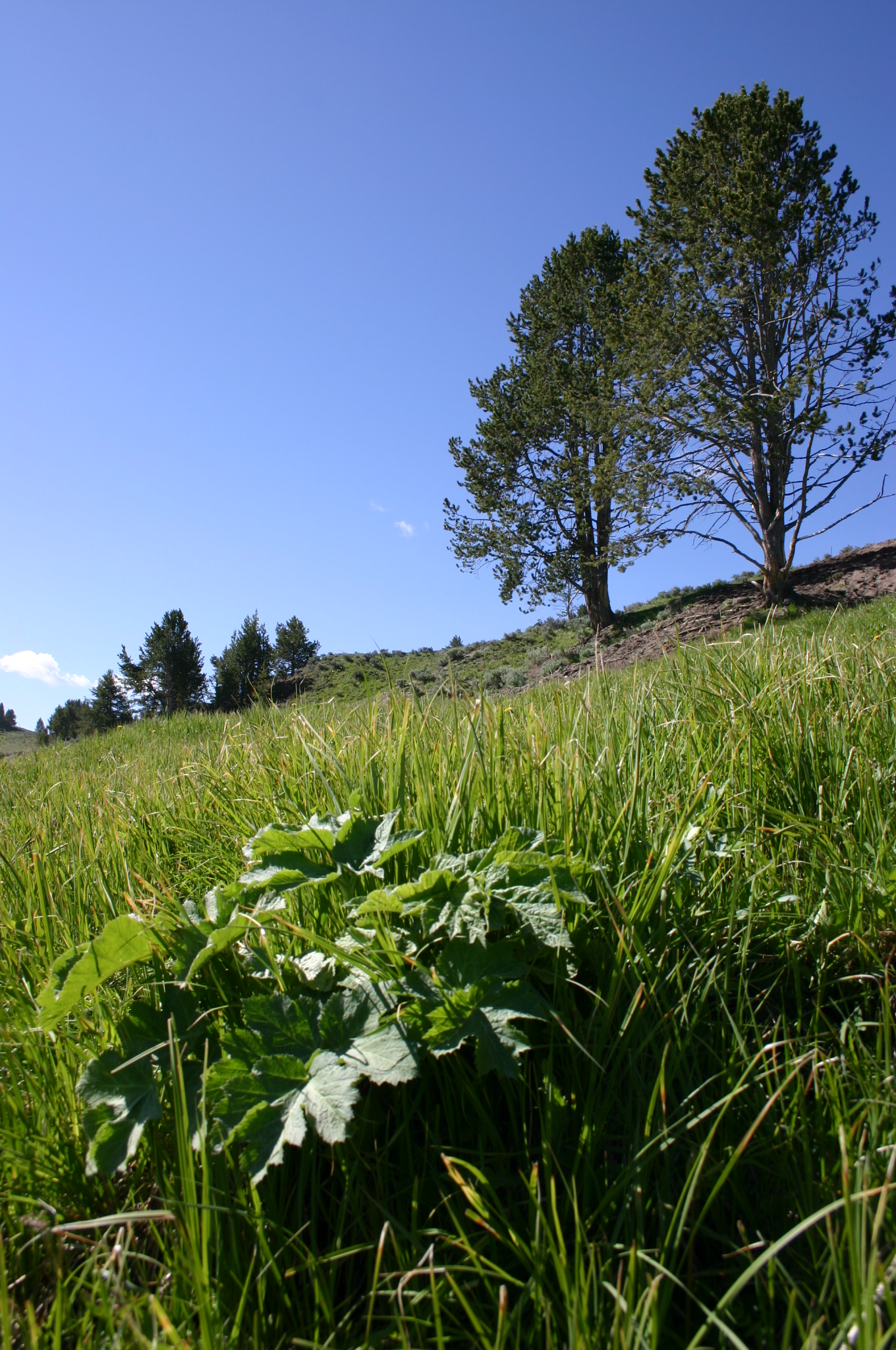 Greenery: trees and various kinds of grasses over a blue sky backdrop